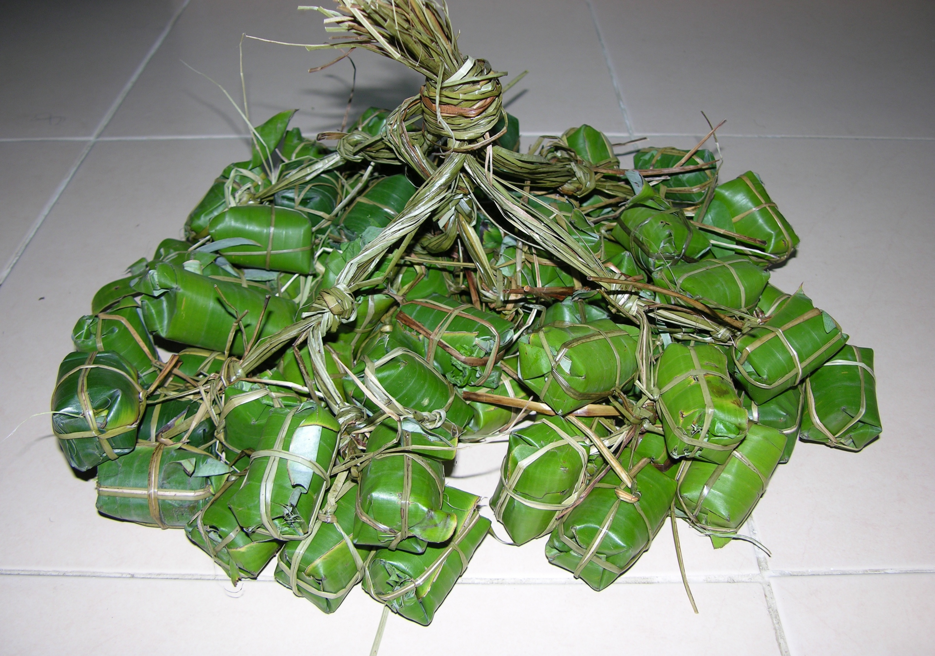 A string of Nem Ninh Hoa